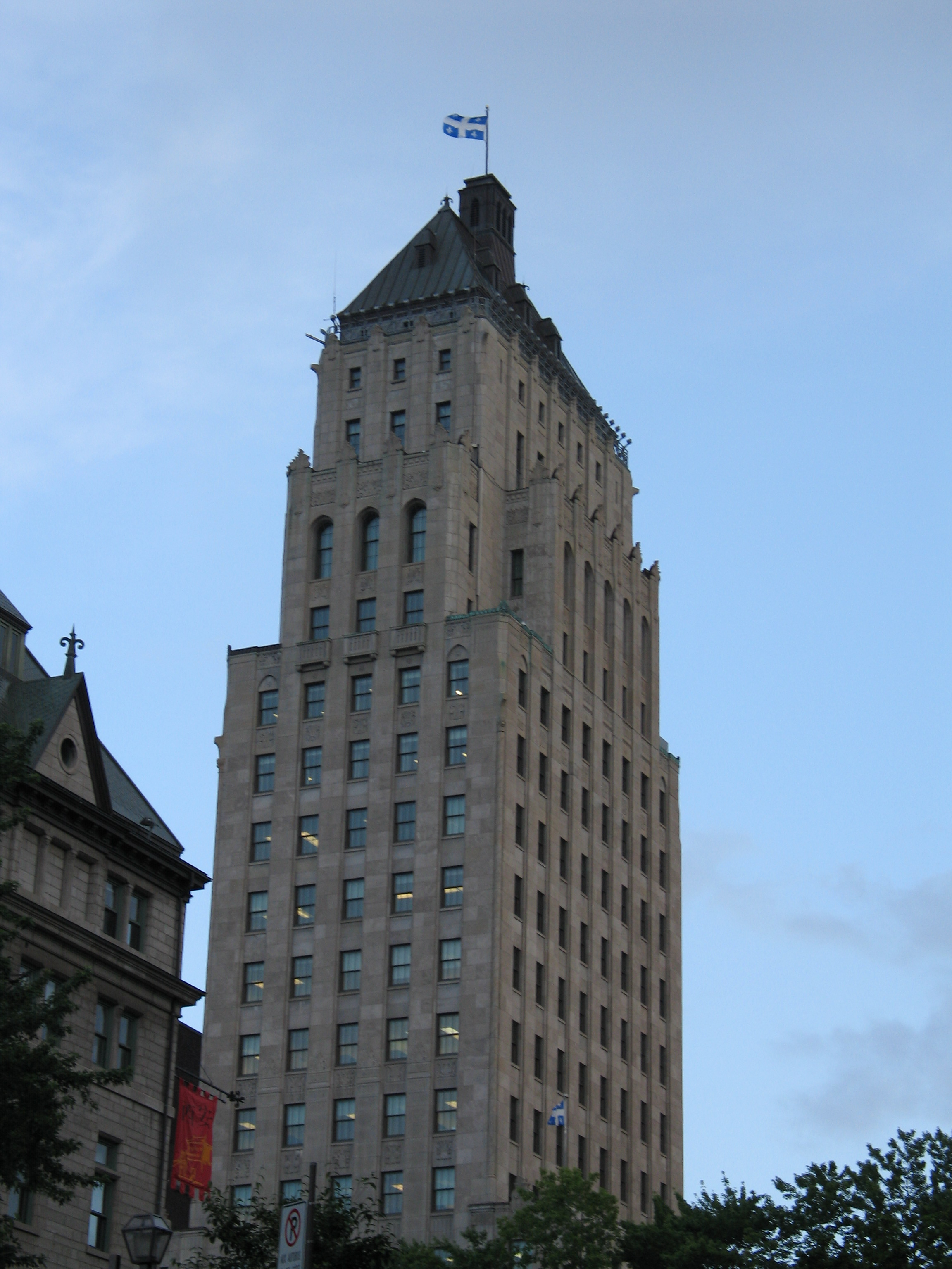 The Price Building, in the old city of Quebec City. The building is the head office of the Caisse de dépôt et placement du Québec and the official residence of the Premier of Québec